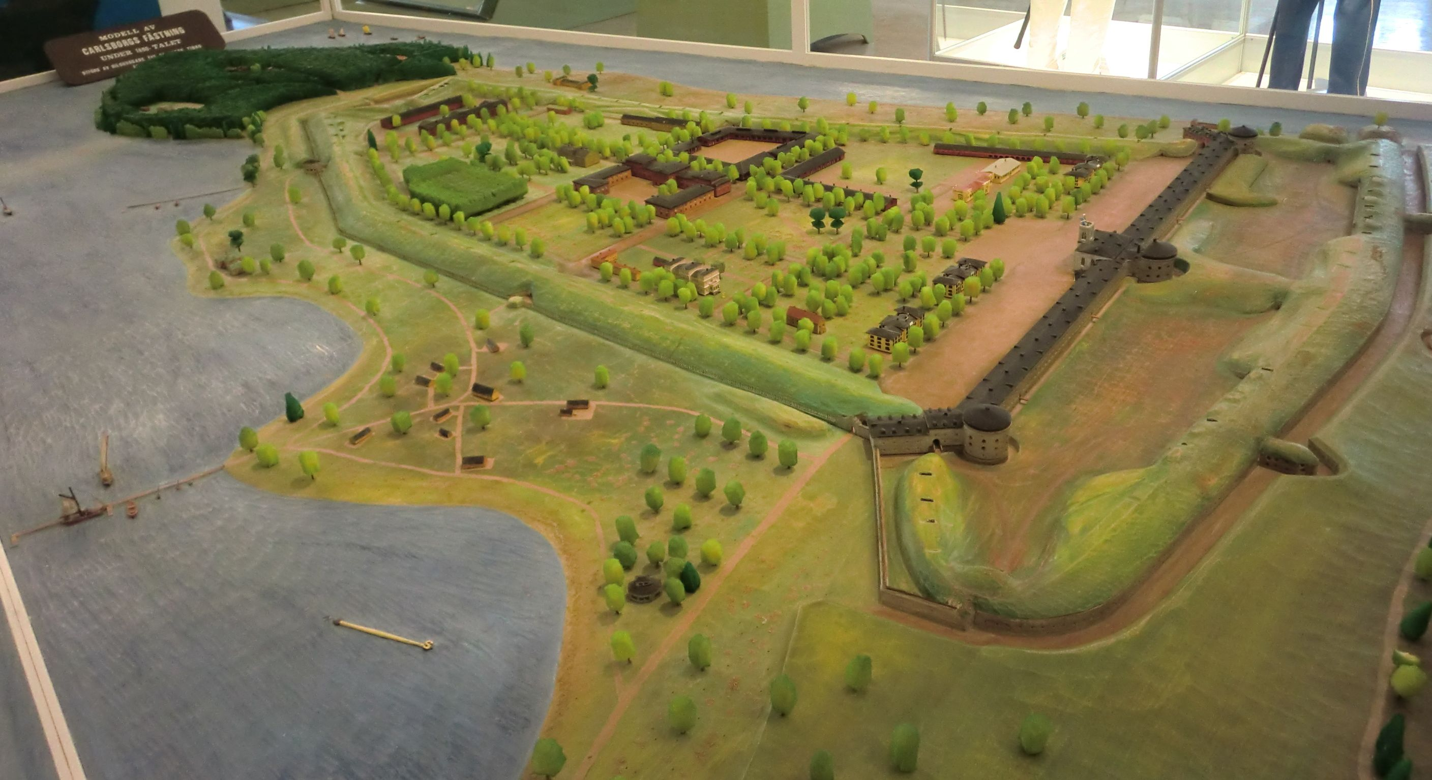 Karlsborg fortress i Sweden during the 19th century, seen from northwest. Model in Karlsborg fortressmuseum.